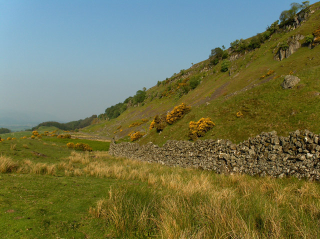 The craggy slope of Gargunnock Hills. Picture taken from above Gilboa Wood. Gearchen Wood is ahead.